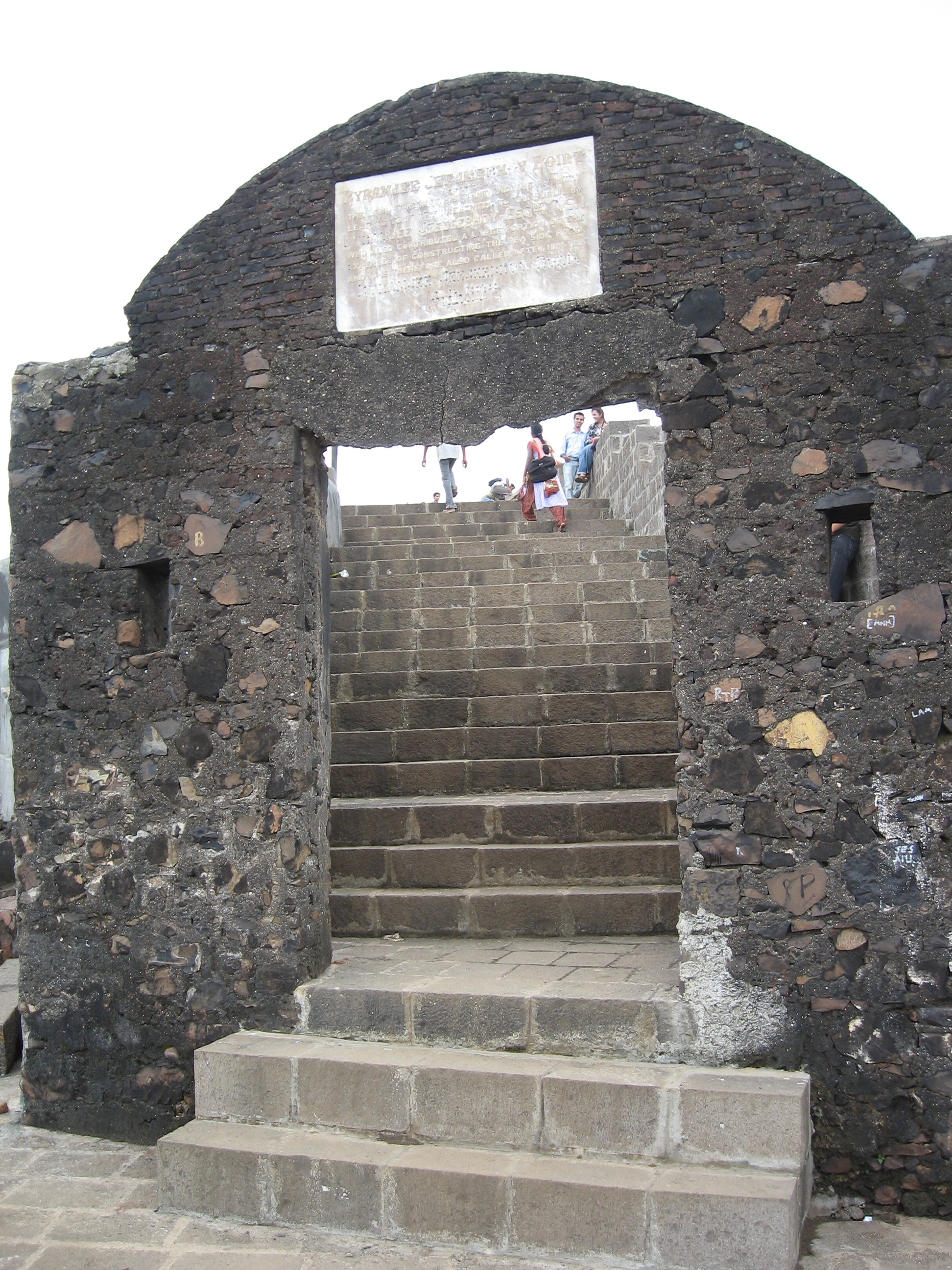 Castella de Aguada a Portuguese fort in Bandra, Mumbai, now in ruins. The fort overlooks the Mahim Bay